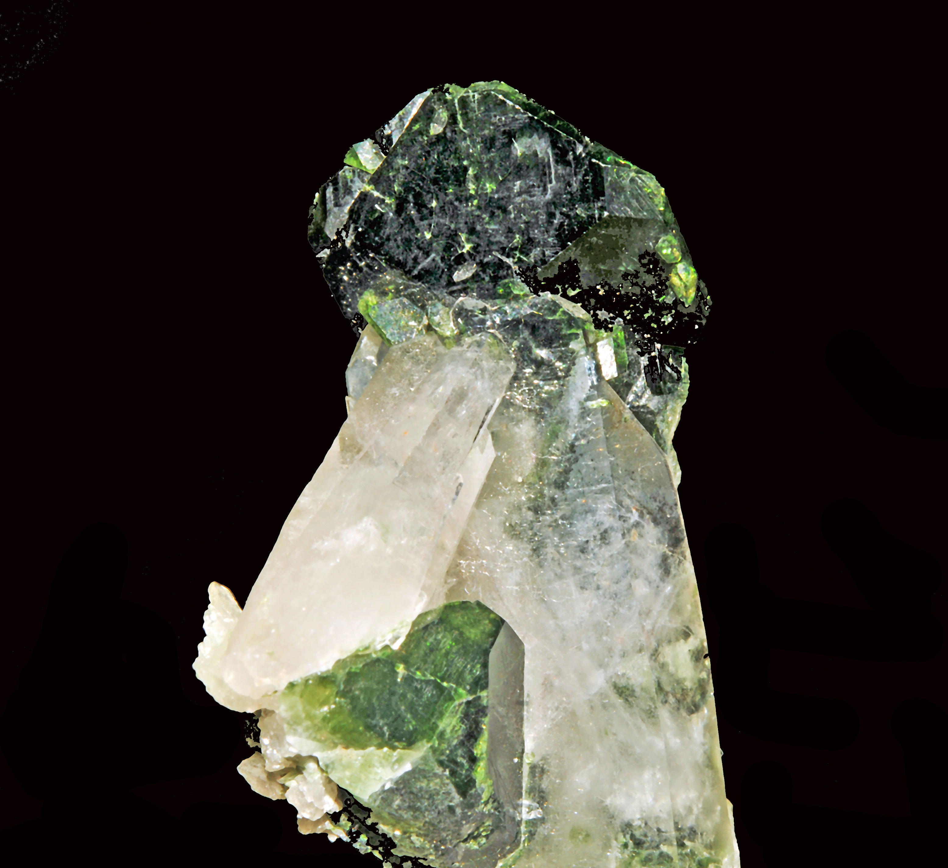 crystals of tourmaline var. uvite, crystals of quartz : Pomba pit, Serra das Éguas, Brumado (Bom Jesus dos Meiras), Bahia, Brazil